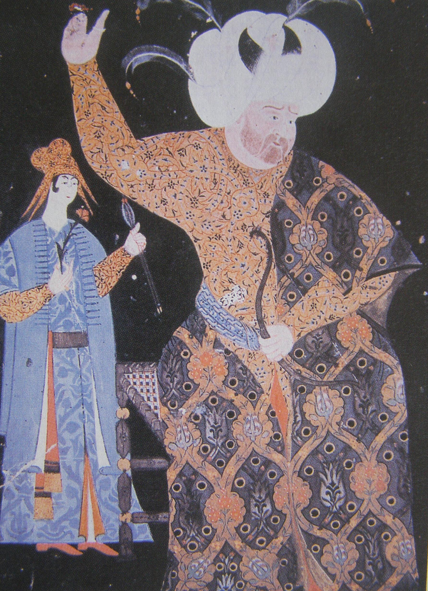 Selim II, Sultan of the Ottoman Empire